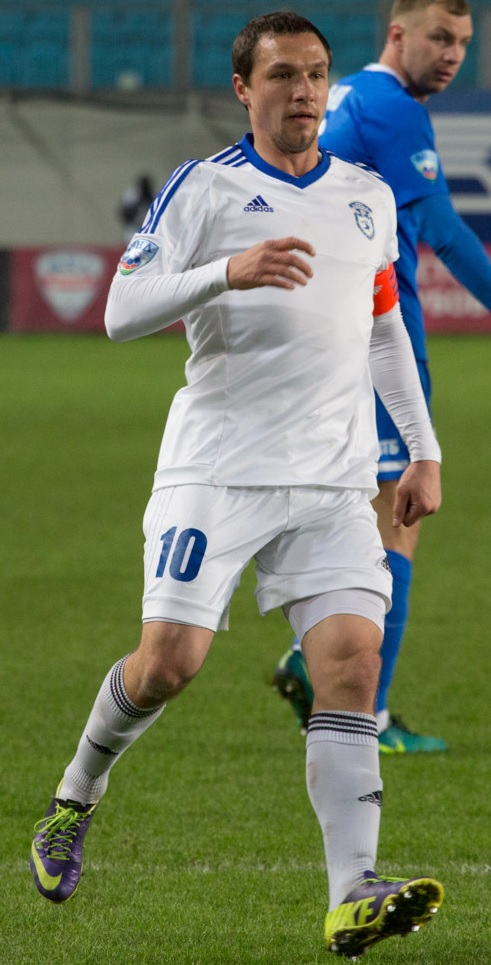 Vladimir Romanenko with FC Sokol Saratov in a game against FC Dynamo Moscow.